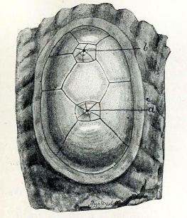 Chelyosoma macleayanum Broderip & Sowerby, 1830; a) branchial orifice b) atrial orifice